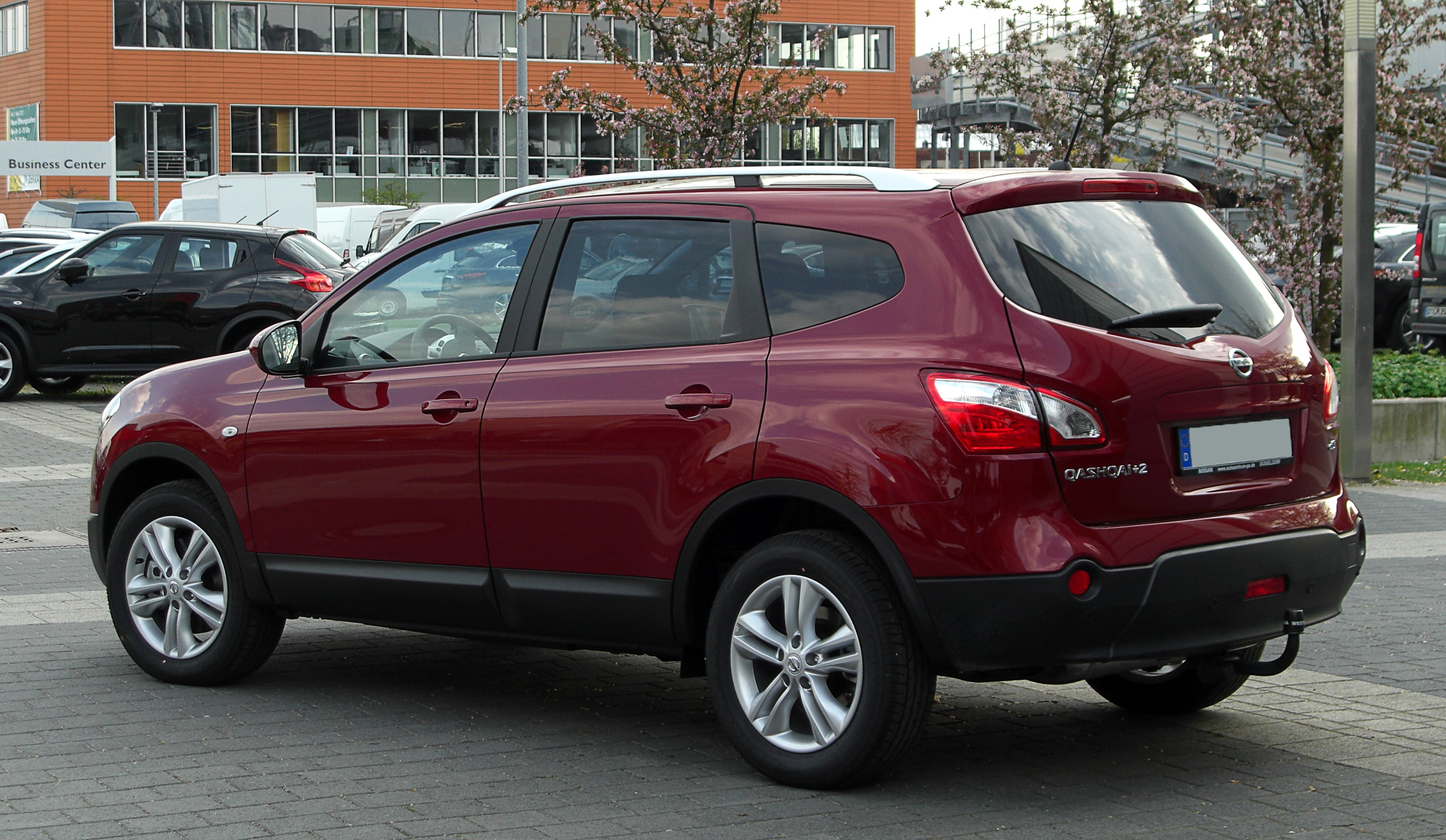 Nissan Qashqai+2 dCi (Facelift)